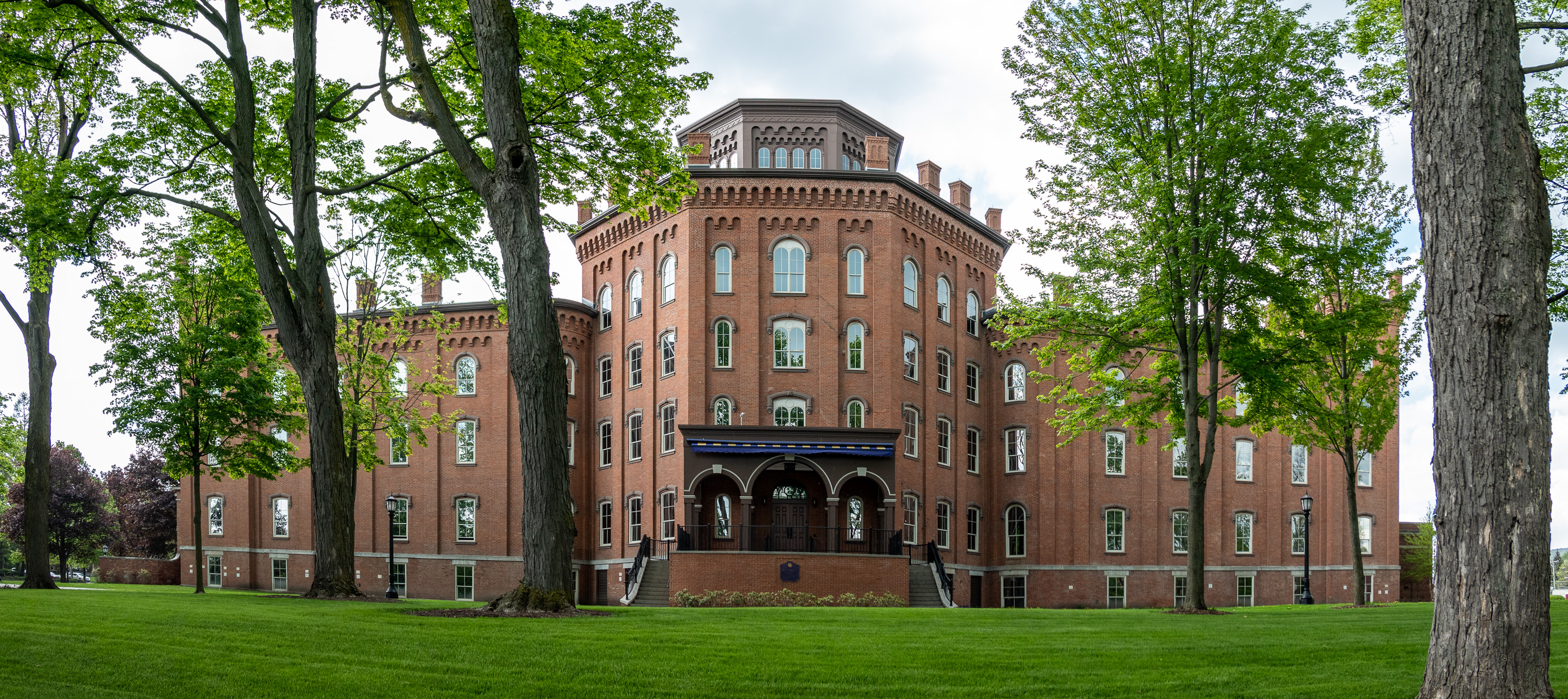 Cowles Hall, Elmira College, Elmira New York, showing octagonal center. Panoramic technique distorts the image a bit.